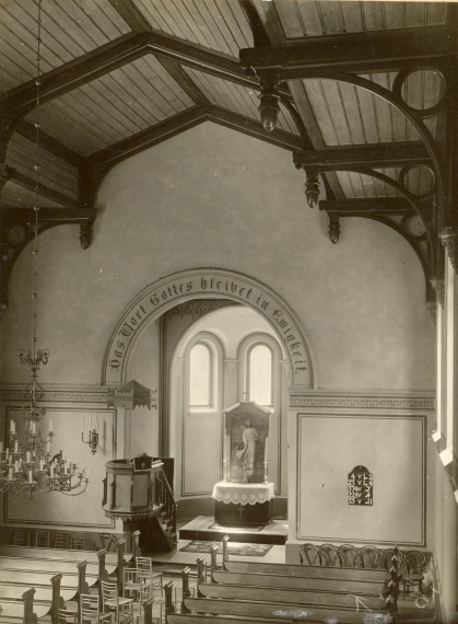 The interior of the church until 1939 with the original design of the altar.